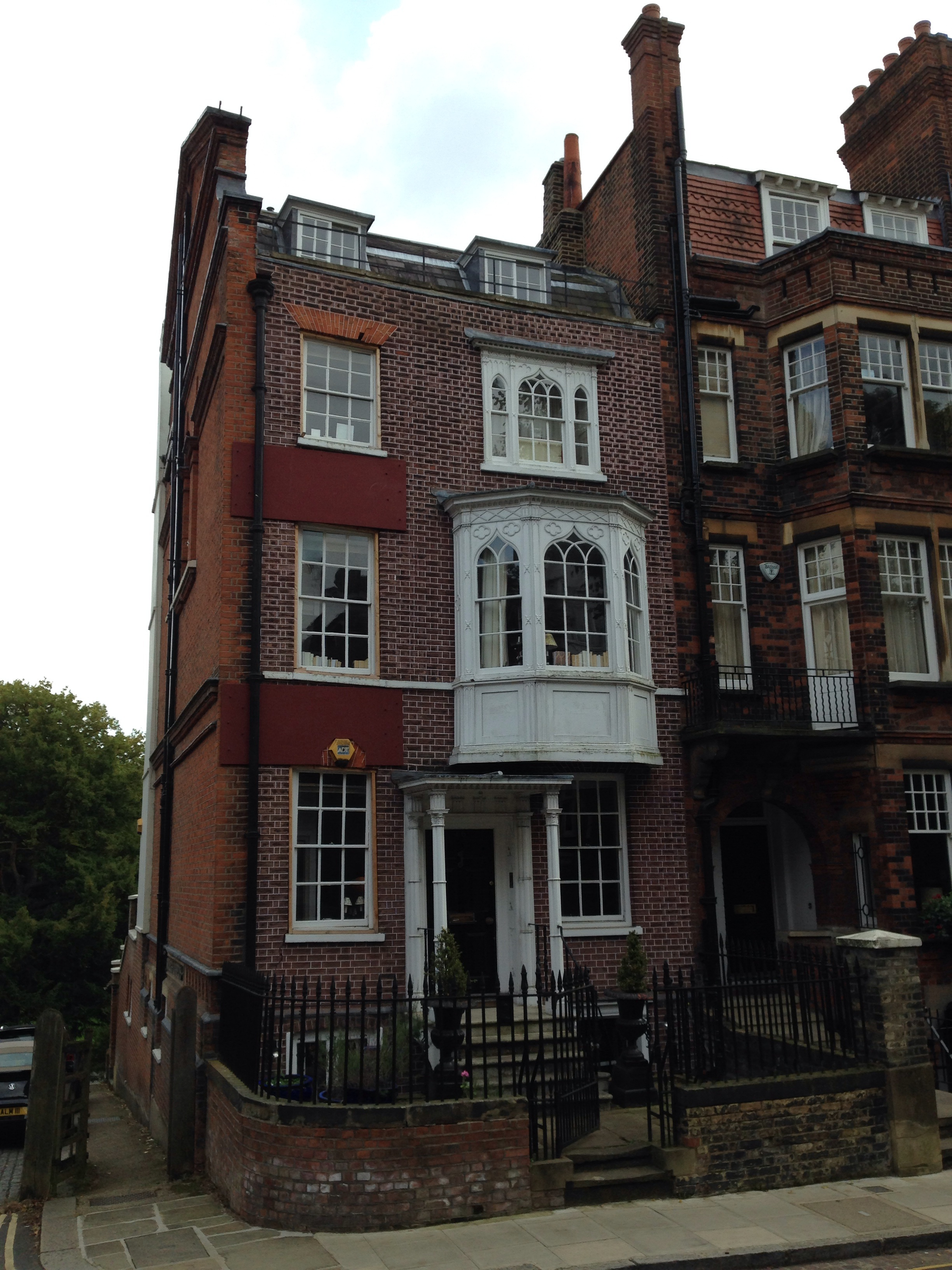 Wikidata has entry Q17548863 with data related to this item.